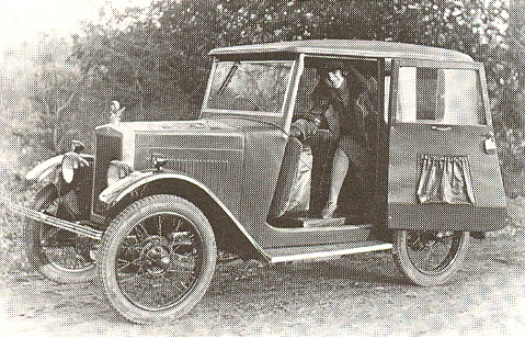 1928 Morris Minor fabric saloon